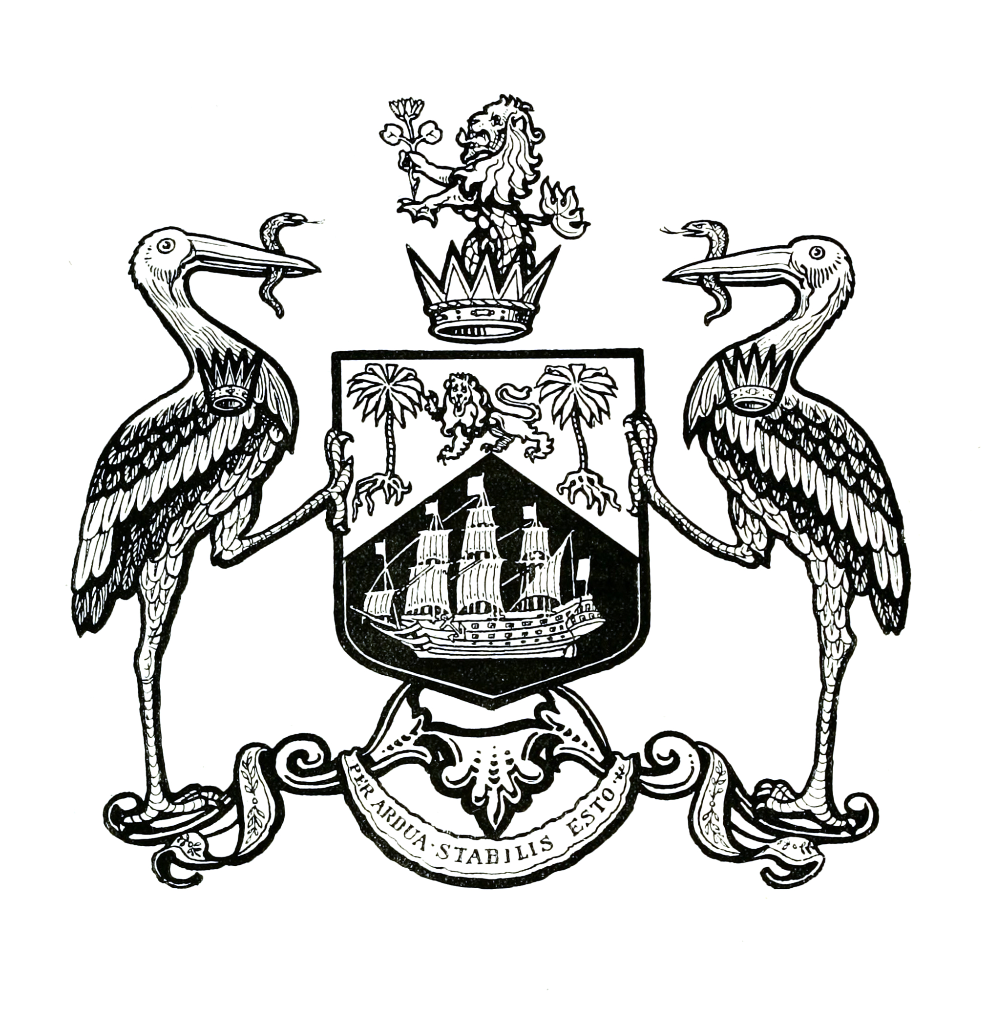 Coat of Arms of the city of Calcutta issued in December 1896. Per chevron or and sable, a lion passant guardant gules between two palm-trees eradicated in chief vert, and a ship under sail in base argent Crest—Issuant out of an Eastern Crown, a sea-lion holding in the dexter paw a lotus-flower leaved and slipped proper. Supporters—On either side a representation of an adjutant bird holding in the beak a serpent proper, charged on the shoulder with an Eastern Crown or. Motto—"Per ardua stabilis esto."